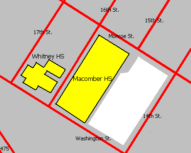 Aerial map showing the locations of Macomber and Whitney high schools.